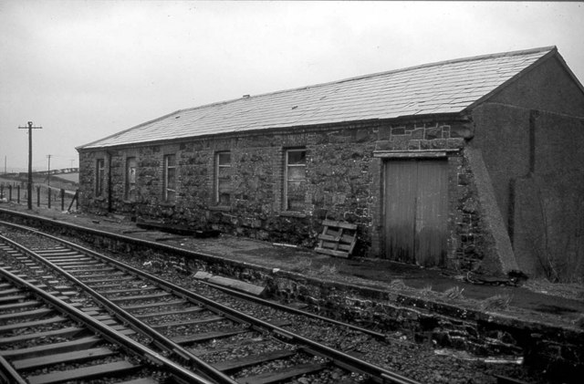 Killagan Station Killagan Station as viewed in 1996, the main station building has been removed, but the goods shed which was attached to the station, is still in use as a farmers storage shed. The passing loop has been reinstalled, but stops short of the level crossing.